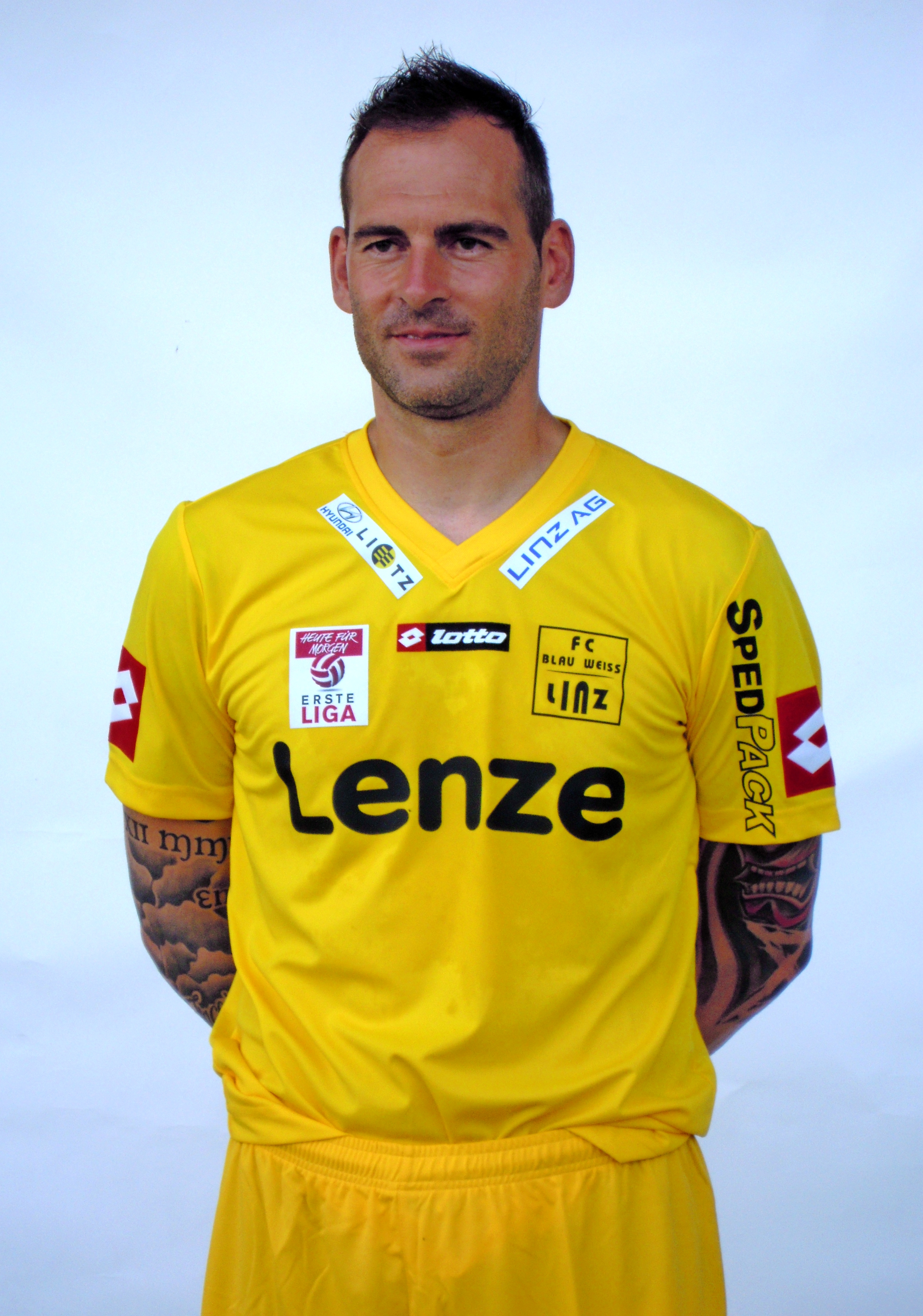 David Wimleitner, goalkeeper and vice-captain of FC Blau-Weiss Linz